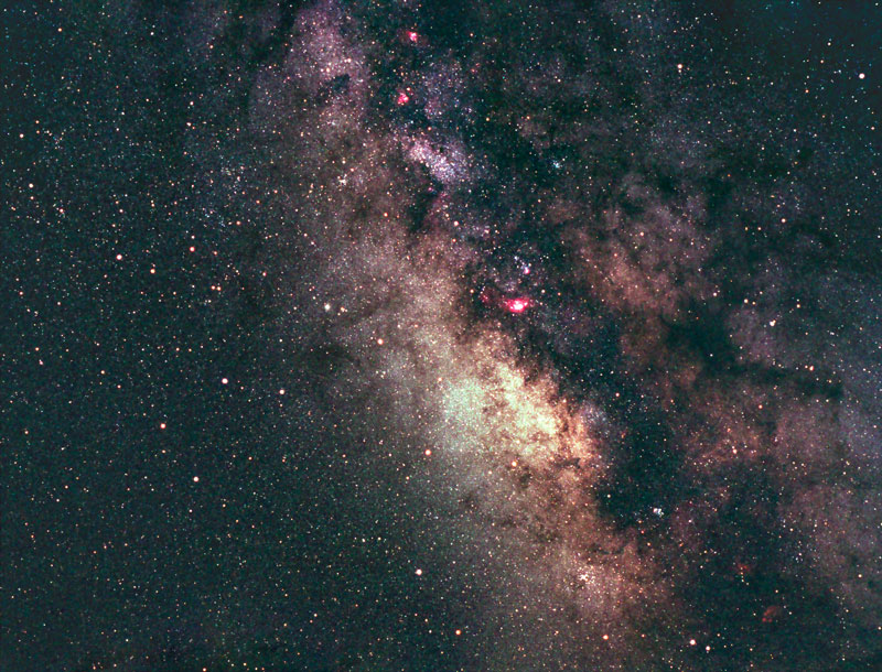 The constellation Sagittarius, as seen from Cherry Springs State Park, Pennsylvania